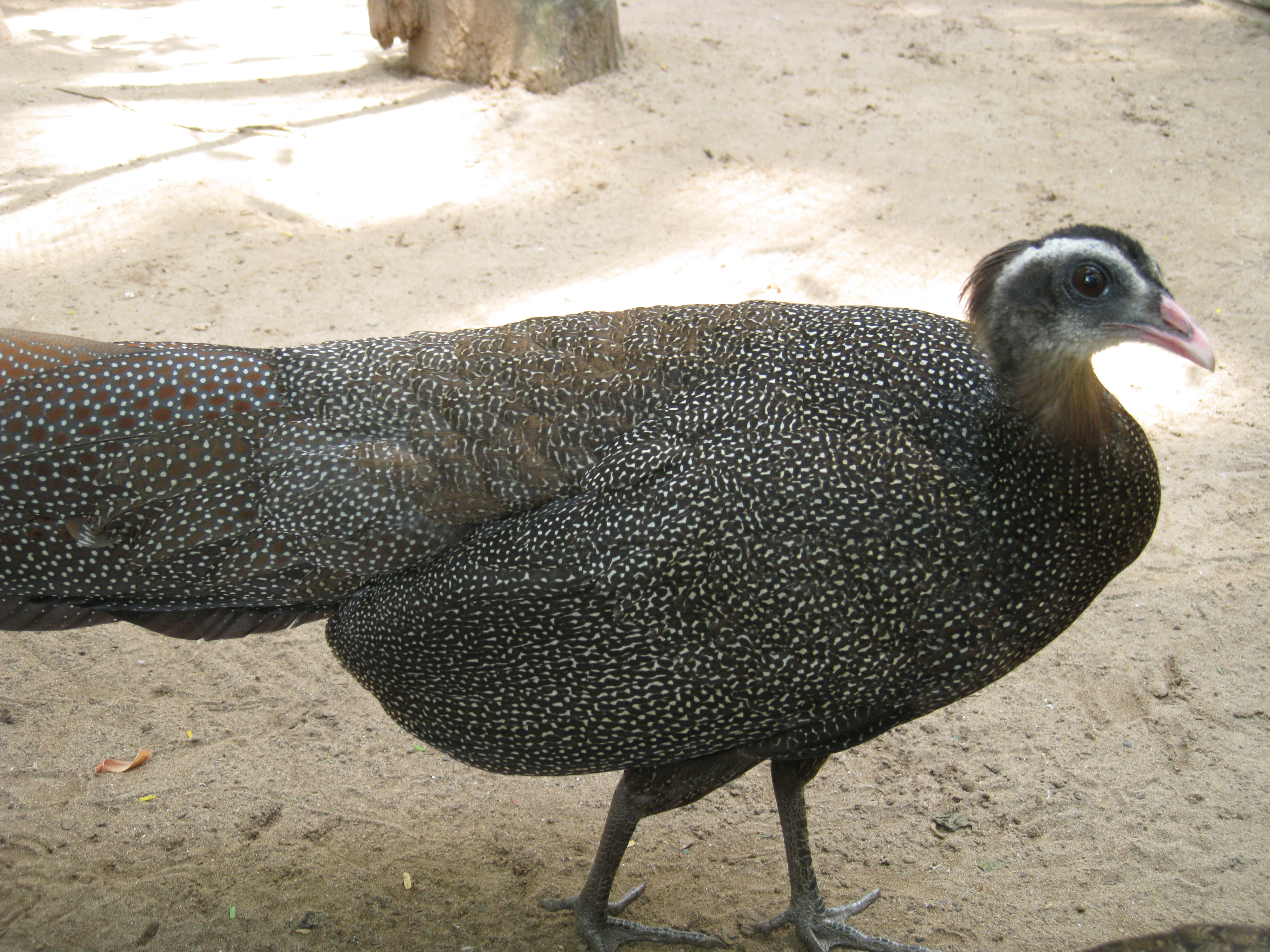 Rheinardia ocellata female, Saigon Zoo and Botanical Gardens.